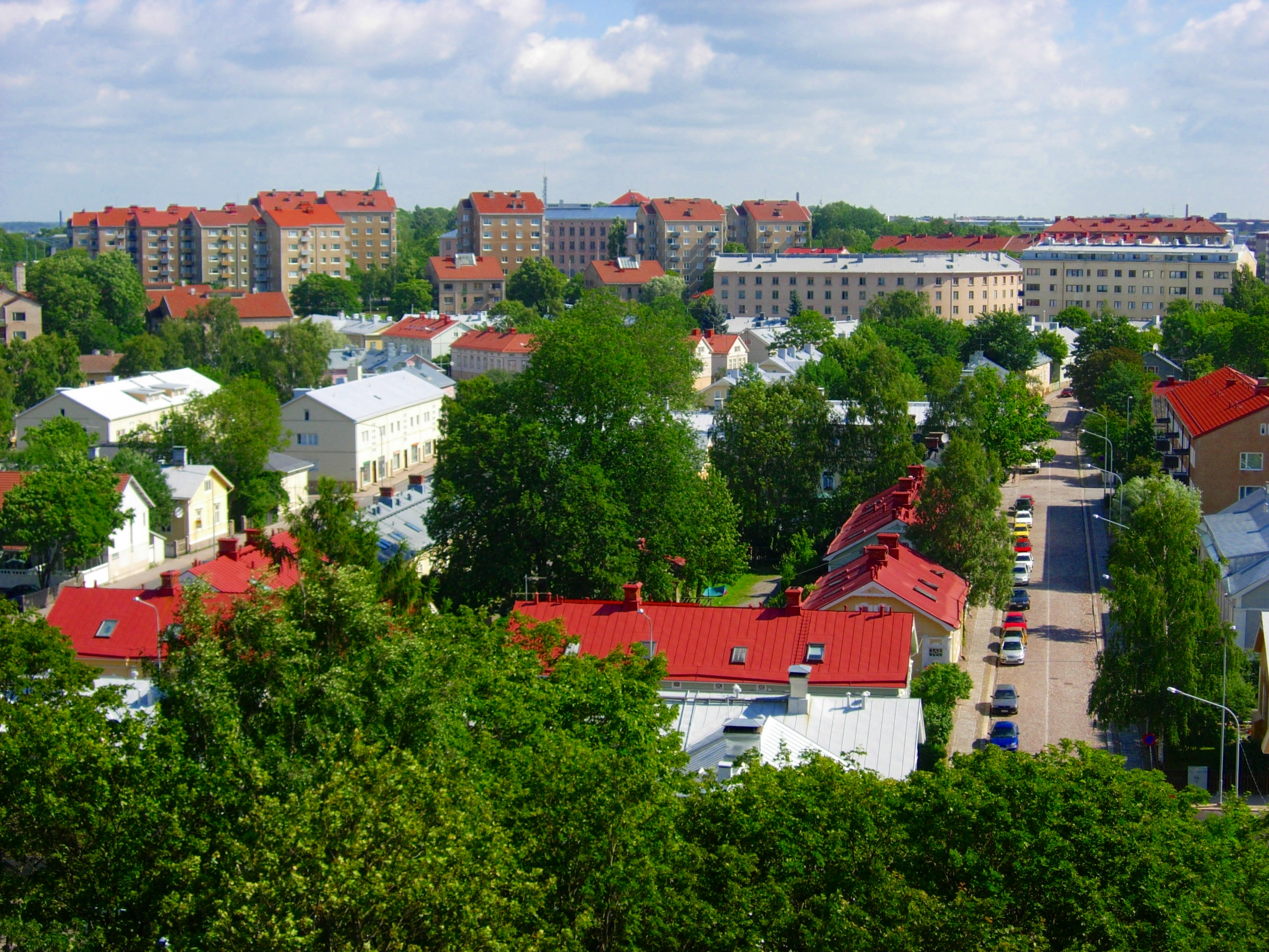 Colours enhanced with Gimp's Colour Enhance, and the colours may actually be too enhanced.